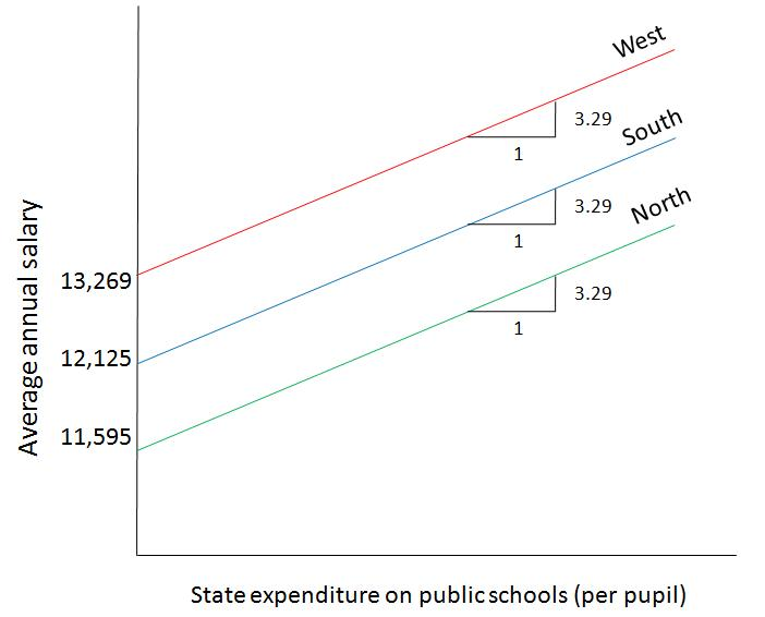 This graph has been used to depict an example of an ancova model regression. for more details on the example, see the article Dummy variable regression analysis